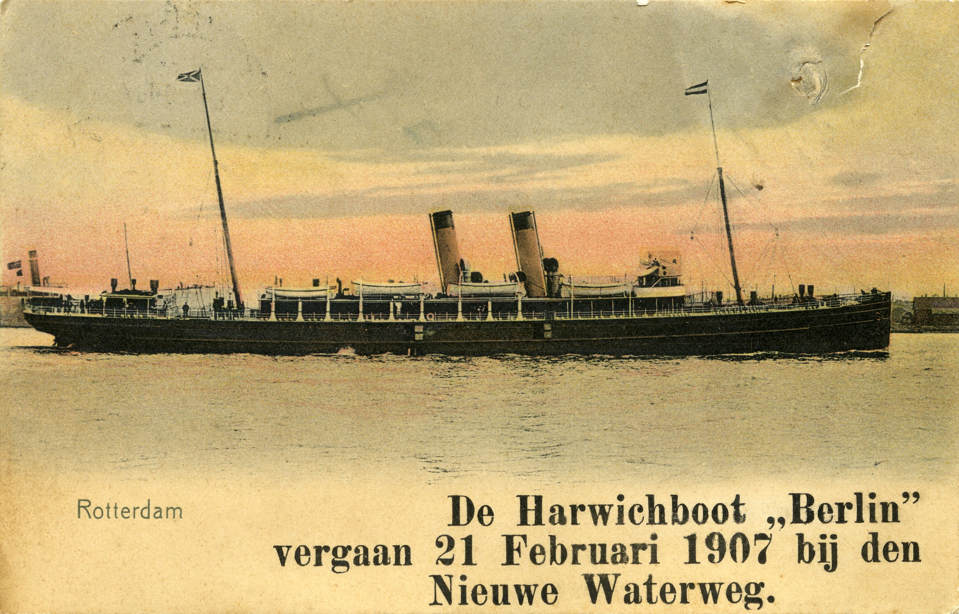 S.S. Berlin, Great Eastern Railway, wrecked Hook of Holland 21 Feb. 1907. Picture Postcard by P.F. van den Ende, Rotterdam, sent from Schiedam to Utrecht 26 Feb. 1907